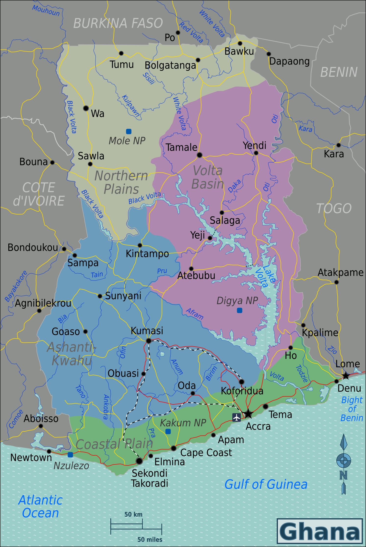 Map of Ghana for use on Wikivoyage, English version